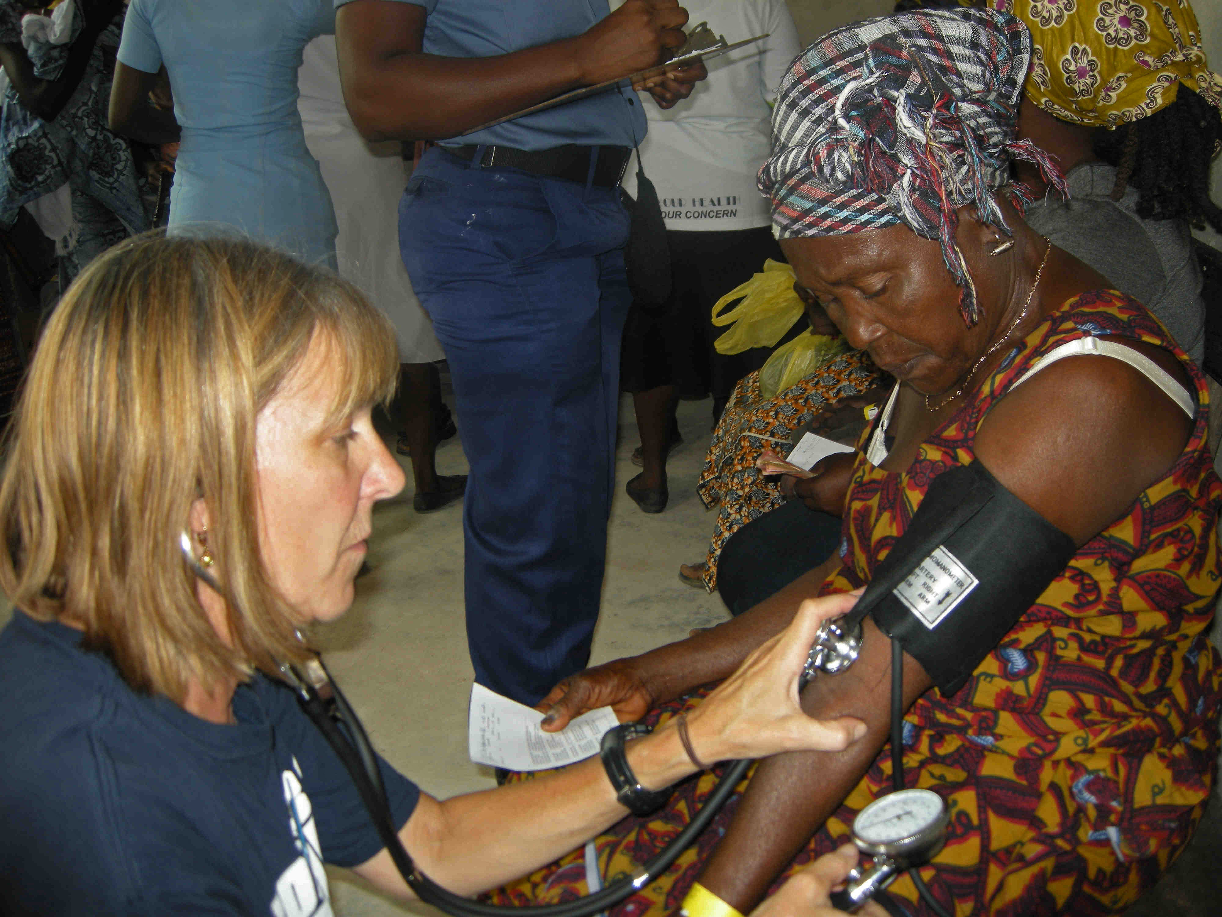 Fran Bauer, a volunteer nurse from Project Hope, checks a patient's vitals during a medical outreach health fair in support of Africa Partnership Station (APS) 2012 hosted by Ghanaian and American medical personnel from High-Speed Vessel Swift (HSV 2). APS is an international security cooperation initiative, facilitated by Commander, U.S. Naval Forces Europe-Africa, aimed at strengthening global maritime partnerships through training and collaborative activities in order to improve maritime safety and security in Africa. (U.S. Navy photo by Ensign Joe Keiley/Released).